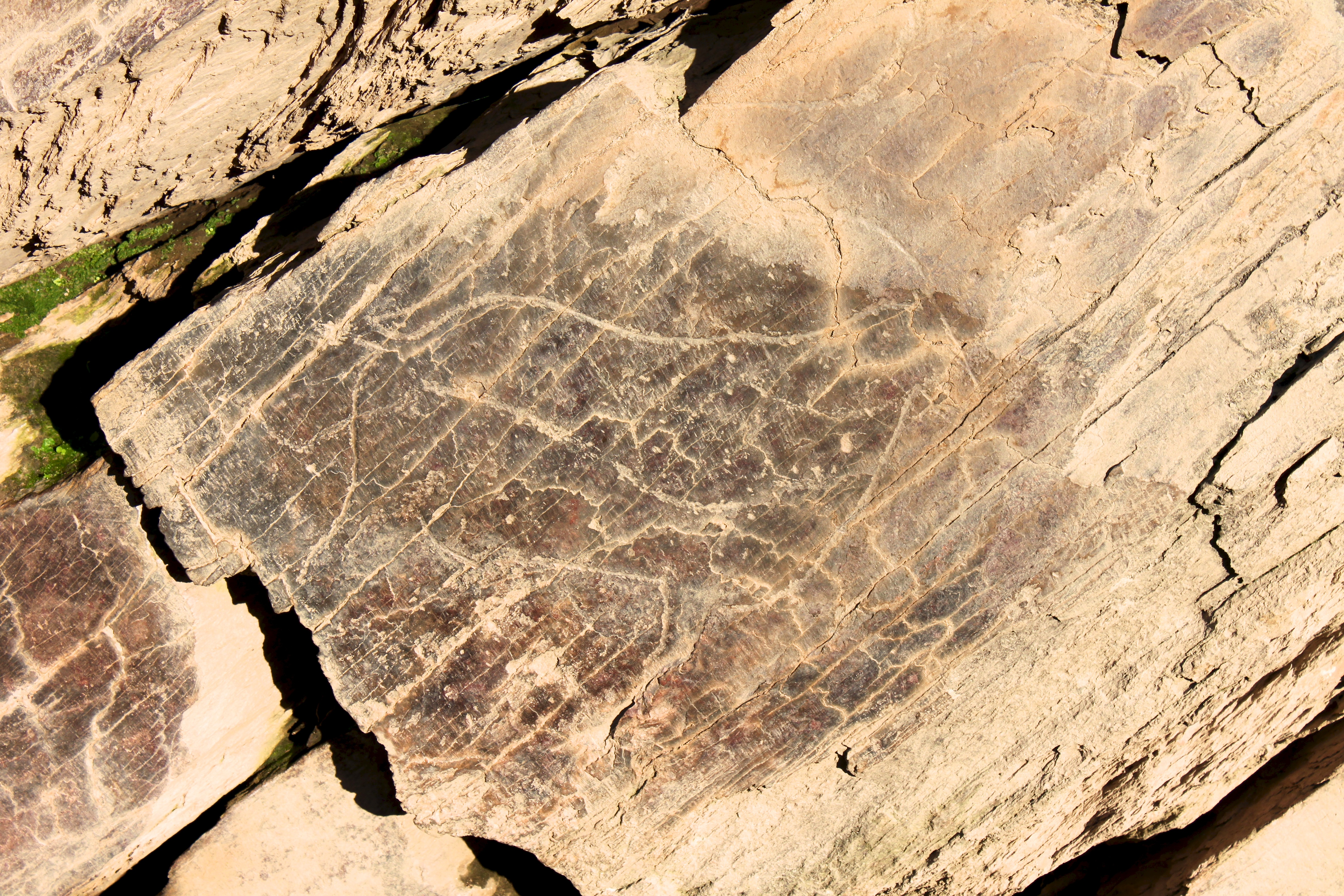 This file was uploaded for Wiki Loves Monuments in Portugal with the unique identifier 70646.